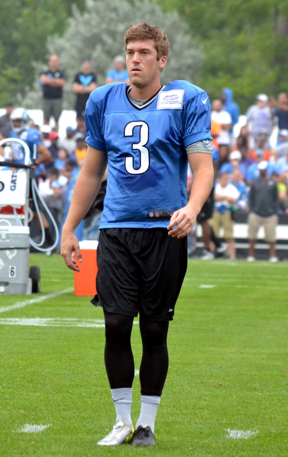 Detroit Lions kicker Nate Freese during 2014 NFL training camp.